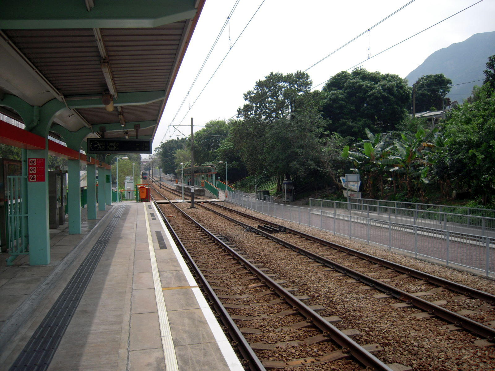 MTR Light Rail Tai Hing South Stop, Hong Kong